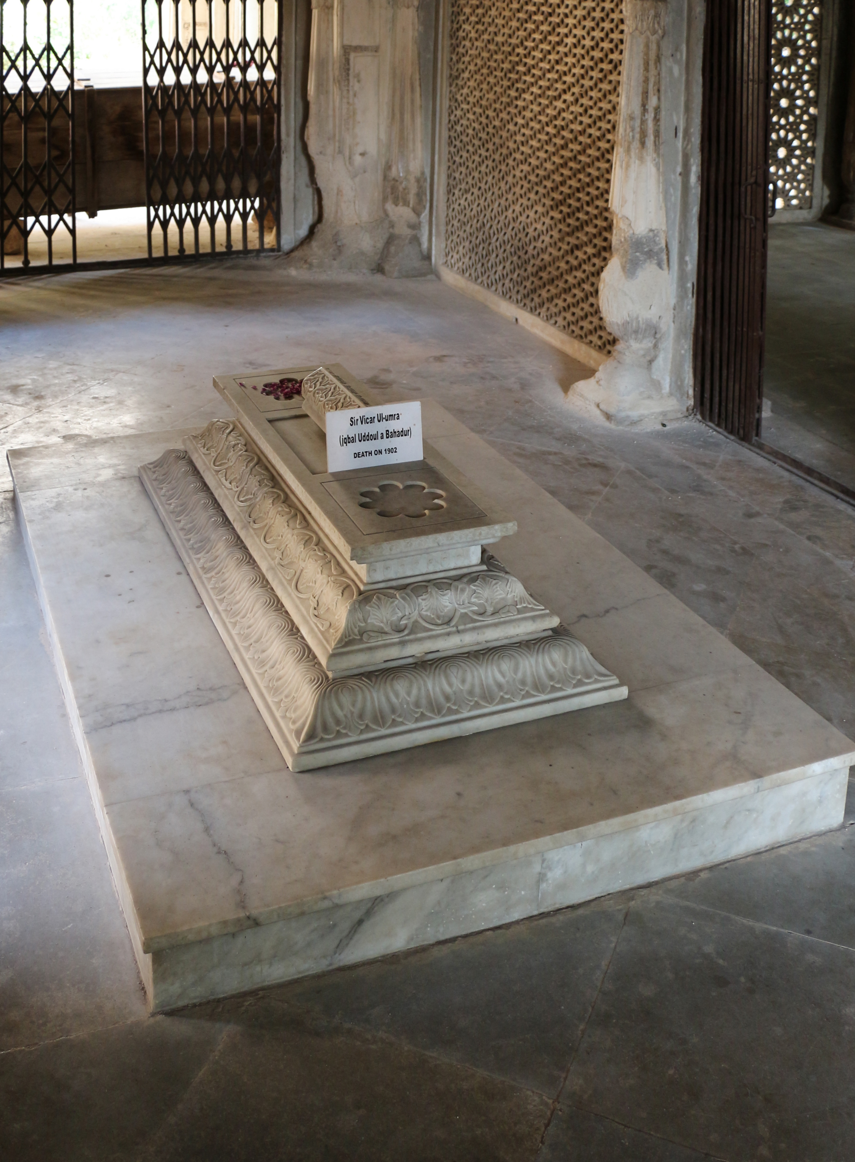 Tomb of Sir Vicar ul-Umra in the Paigah Tombs complex, Hyderabad, India